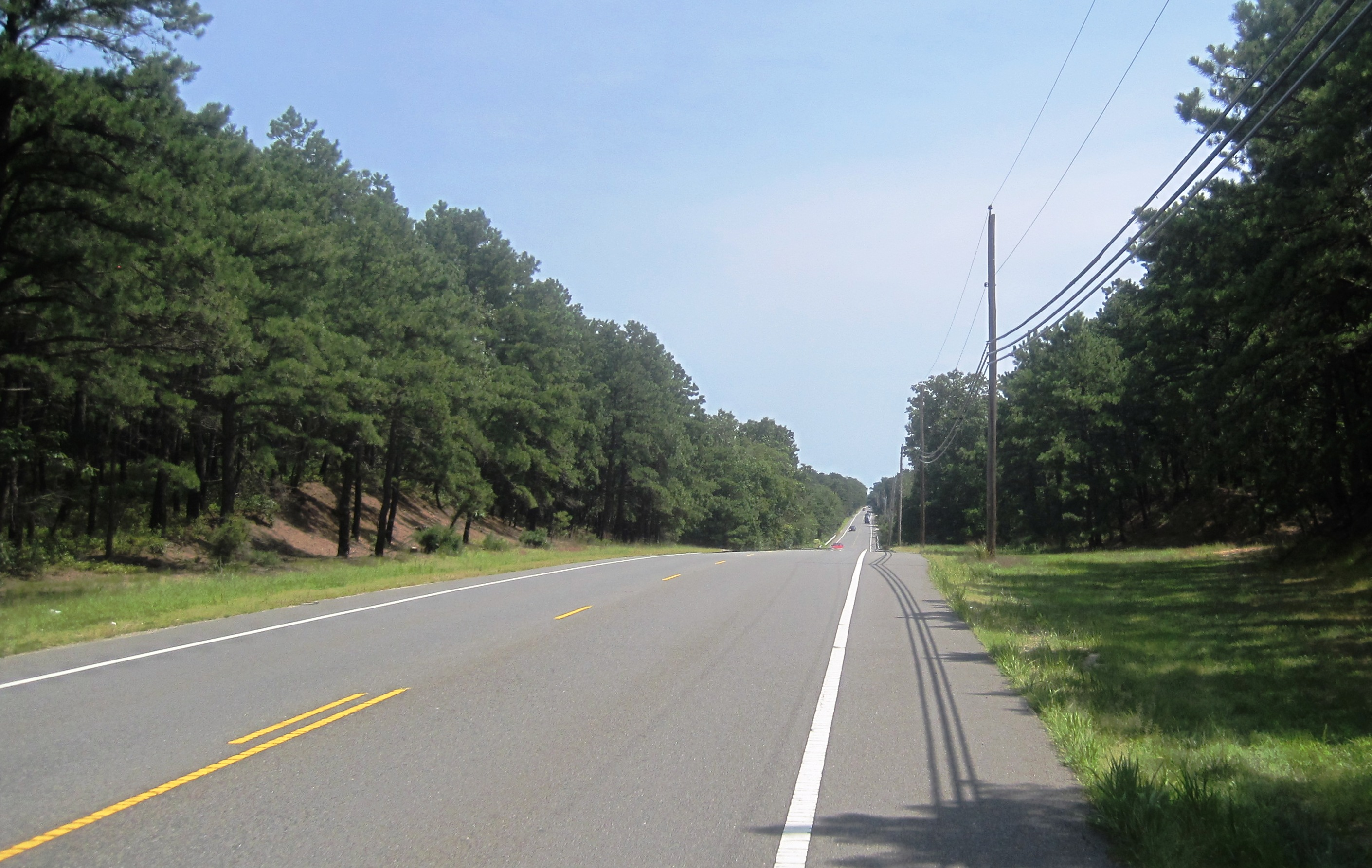 Photo showing County Route 528 in rural Jackson Township, New Jersey. The location is eastbound along CR 528 at approximately milepost 17, in the northern extents of the Pine Barrens and near the highest point in Ocean County.[1]